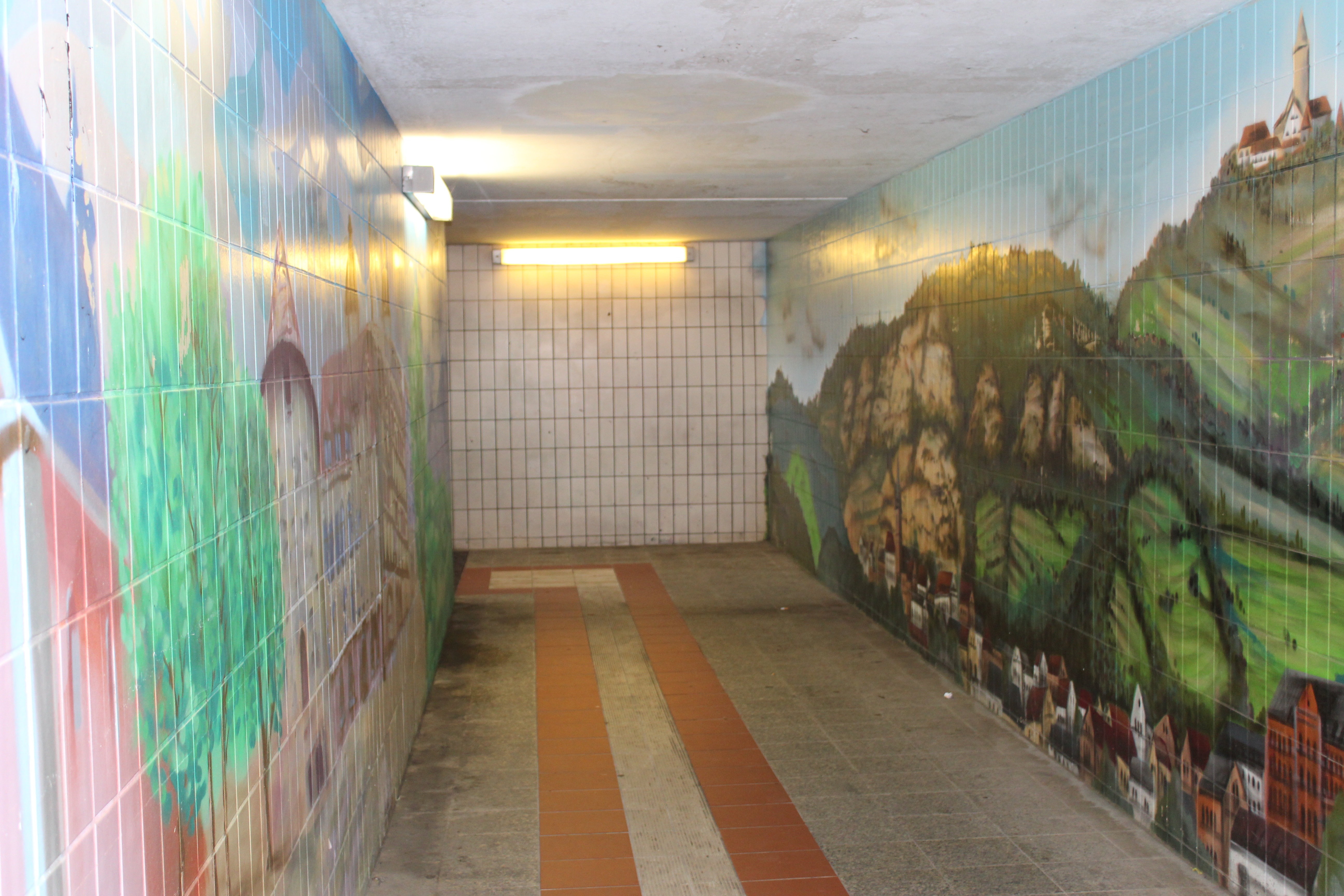 train station Kahla (Thür), tunnel